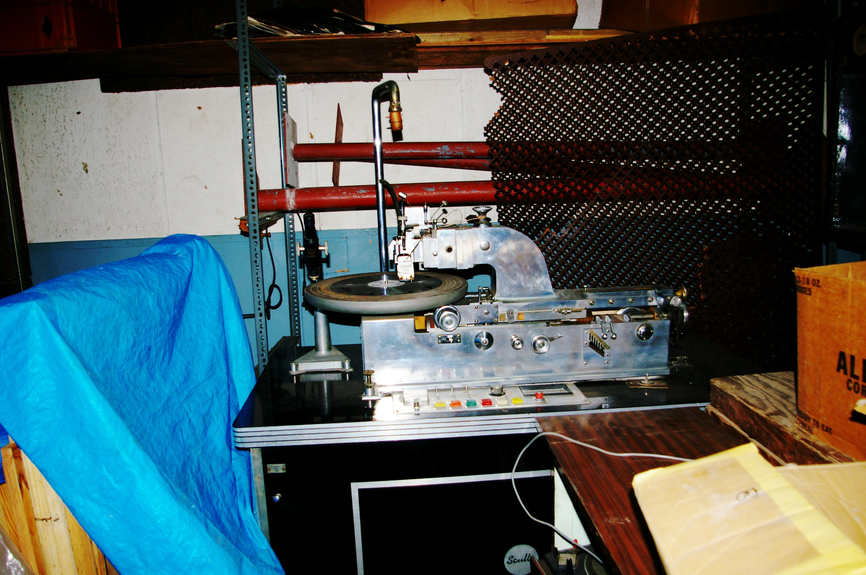 A Scully recording lathe for engraving an audio-signal-modulated spiral groove into a special blank master disc. Ordinary vinyl records are mass-produced molded copies of the individually cut masters. Photographed in the back room of the original site of VP records.